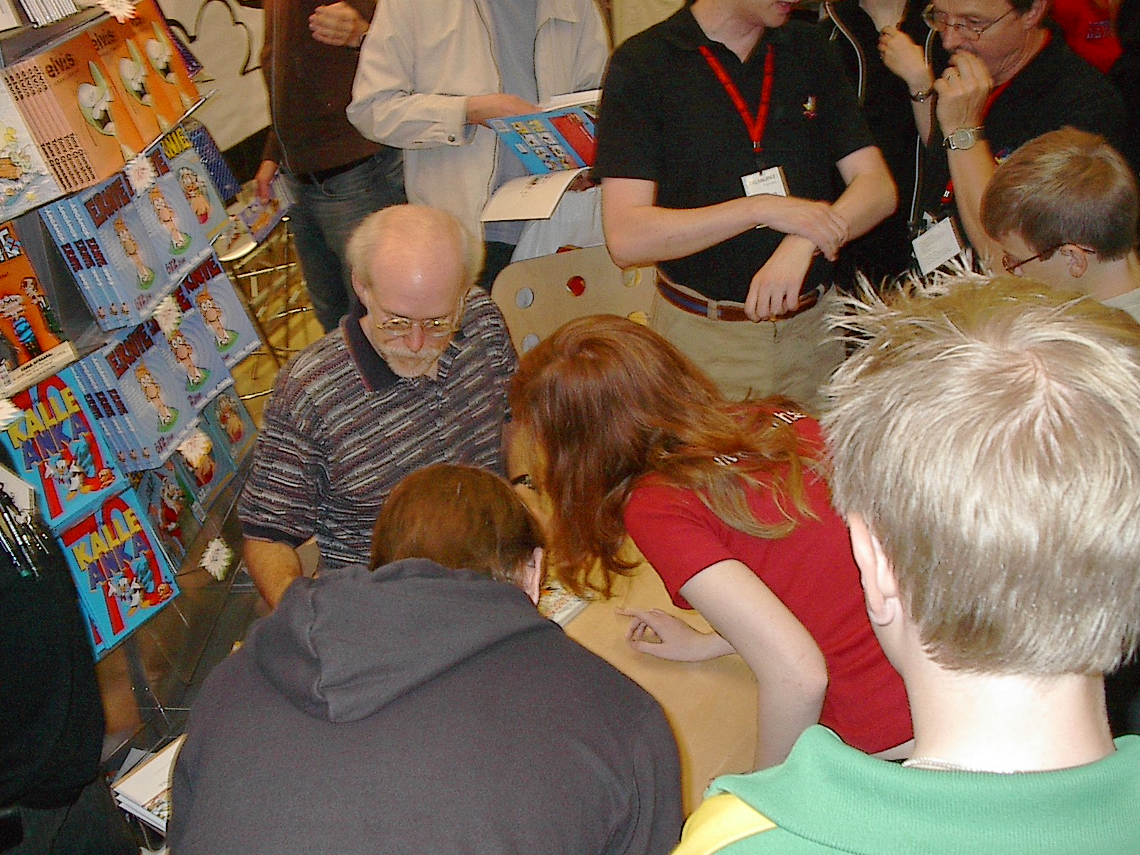 Don Rosa, American Disney cartoonist, at Göteborg Book Fair 2004, Gothenburg, Sweden.